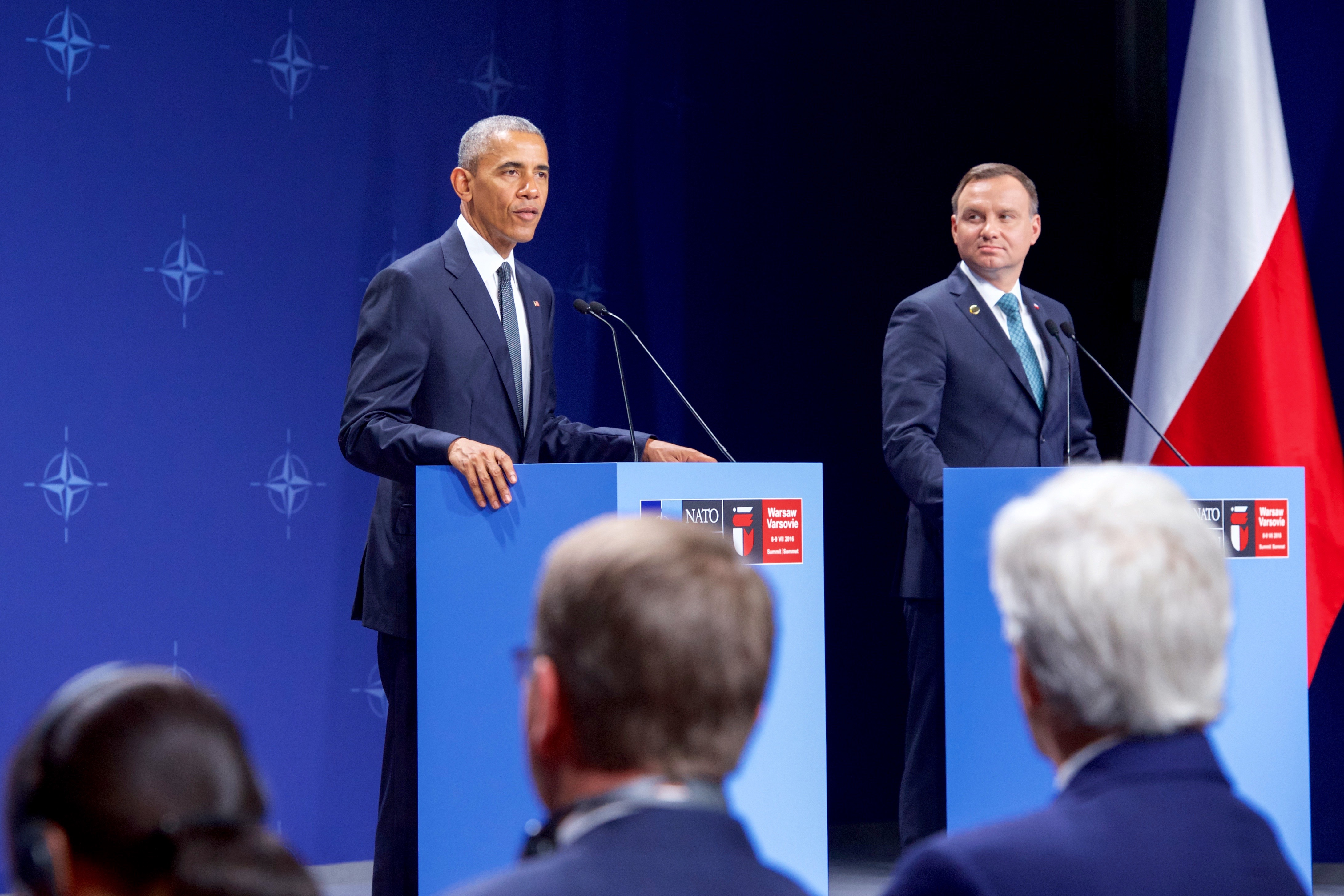 U.S. Secretary of State John Kerry and U.S. Defense Secretary Ash Carter look on from the audience as President Obama makes remarks on July 8, 2016, at the National Stadium in Warsaw, Poland, during a joint statement with Polish President Andrzej Duda following a bilateral meeting on the sidelines of the NATO Summit. [State Department Photo/ Public Domain]